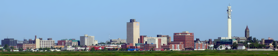 The Skyline of Moncton New Brunswick